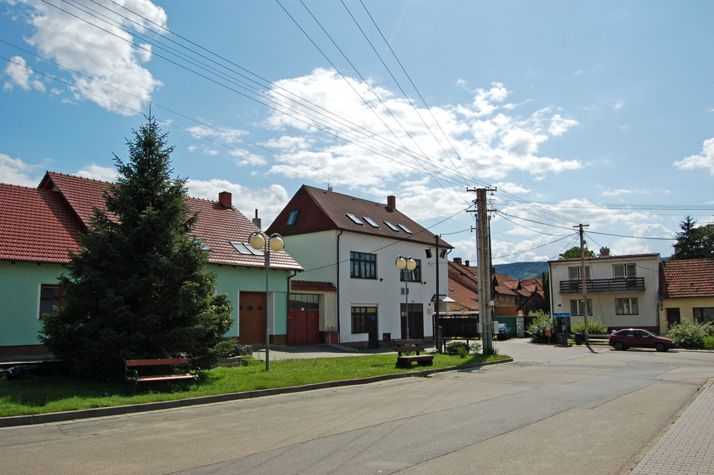 Rajecko - local authority in the square 1. máje